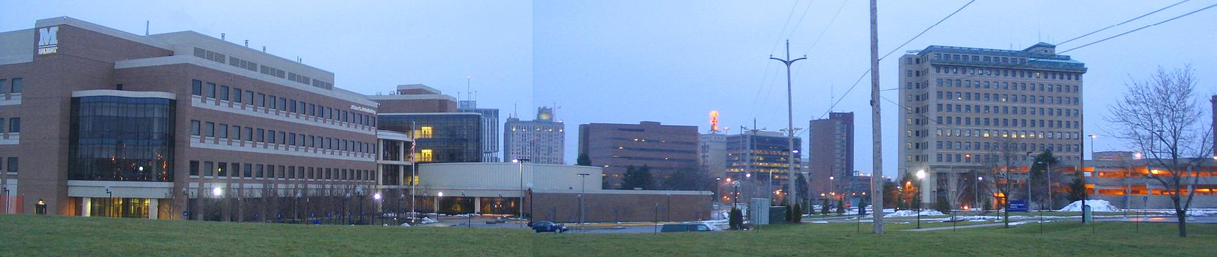 Flint's skyline as seen from the North. The William S. White building, part of the University of Michigan Campus dominates the northern riverfront. Seen in the background, from left to right, are Genesee Towers, the Mott Foundation Building, the Citizens Bank, (topped with the blinking "weather ball,") and the Northbank Center.